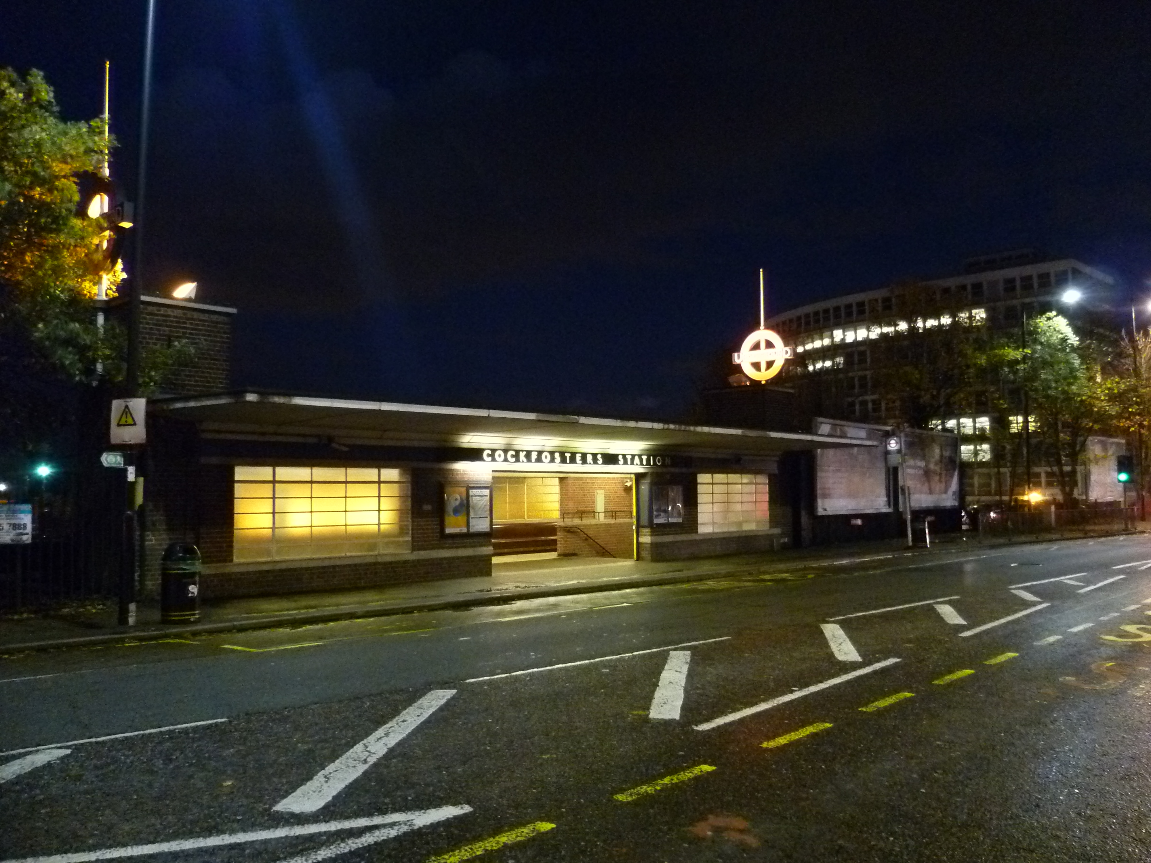 Cockfosters tube at night